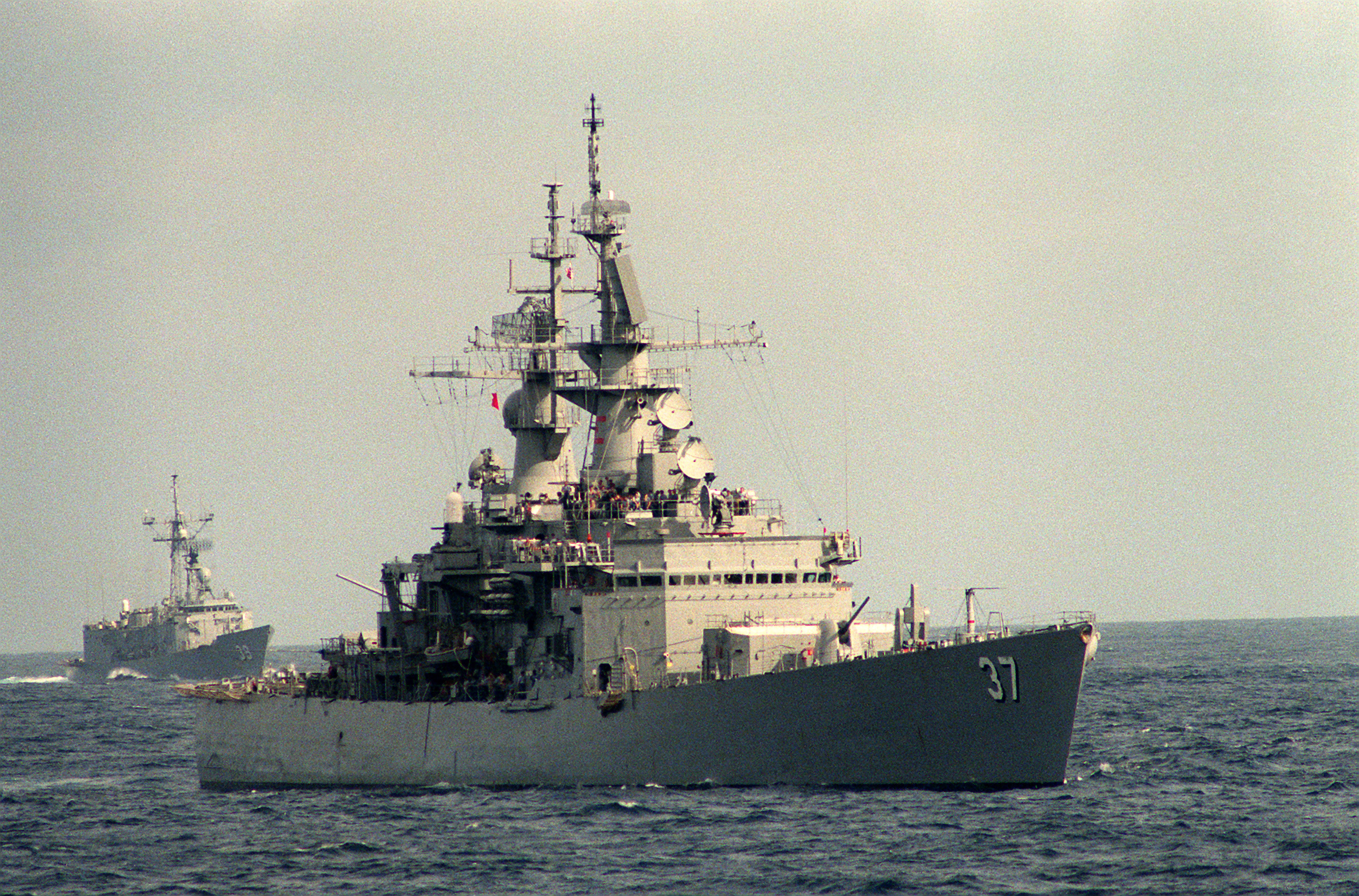 The U.S. Navy nuclear-powered guided missile cruiser USS South Carolina (CGN-37) underway in the Atlantic Ocean on 1 November 1984. The guided missile frigate USS Doyle (FFG-39) is visible in the background.